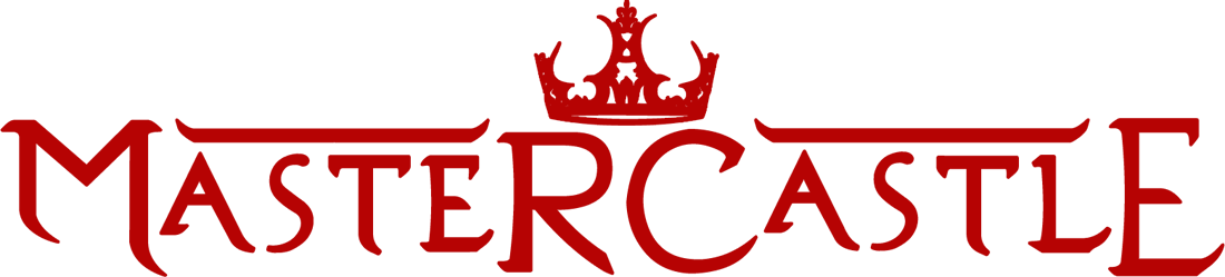 Mastercastle logo